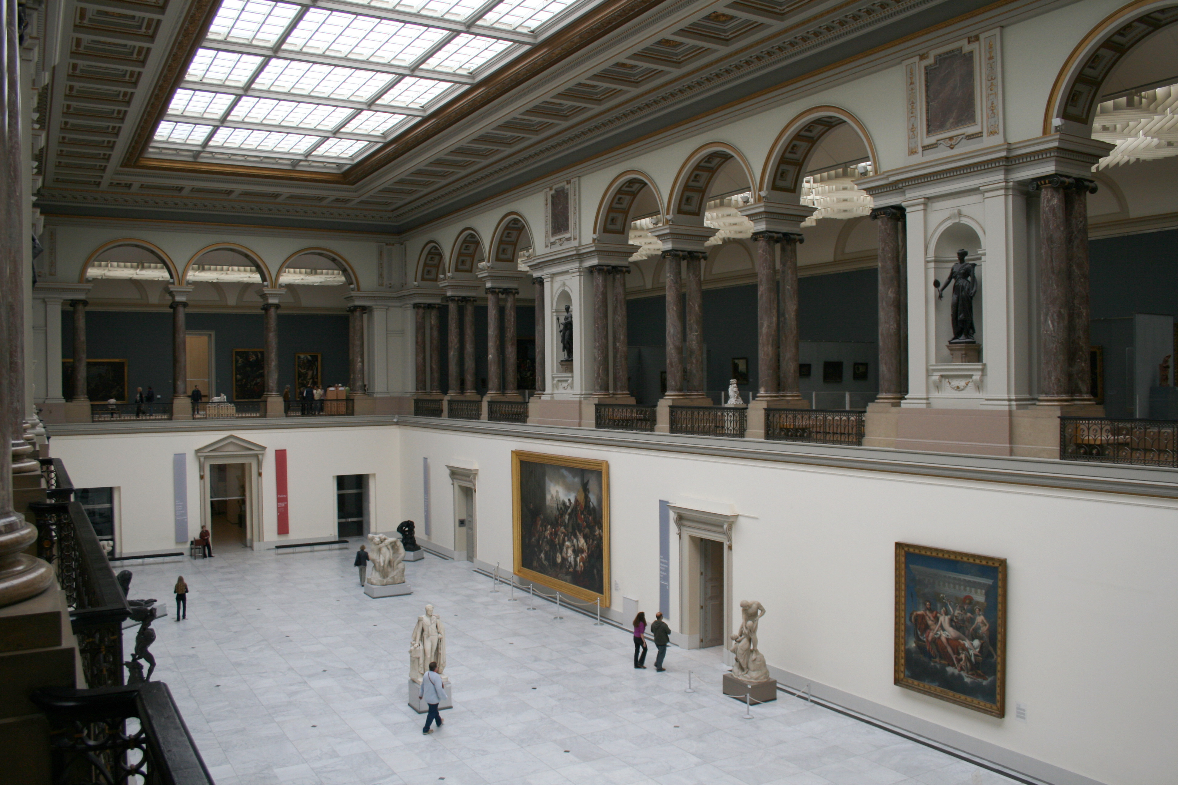 Main Hall of the Royal Museum of Fine Arts of Belgium, Brussels